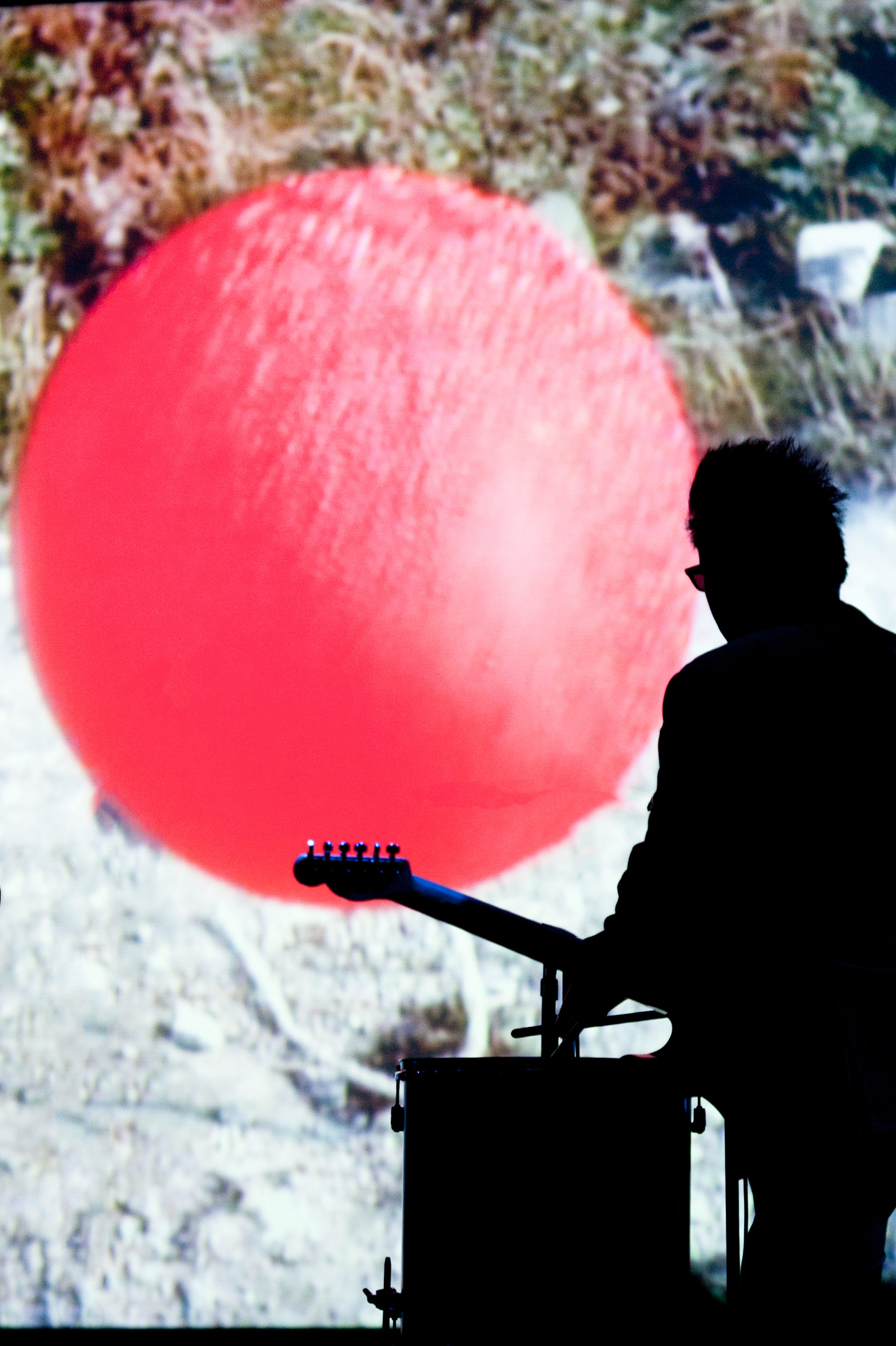 Mercury Rev at Tel Aviv